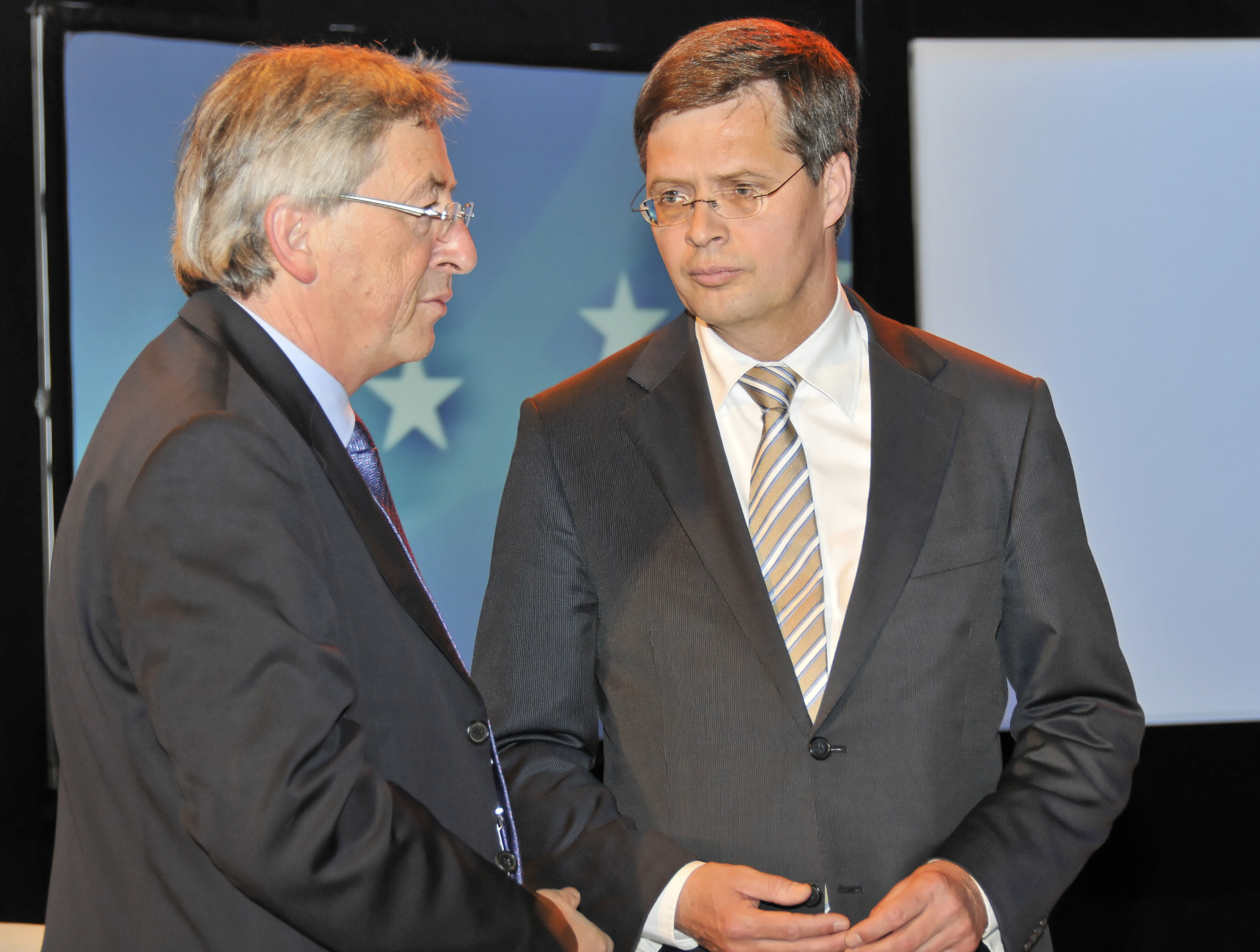 EPP Congress Warsaw